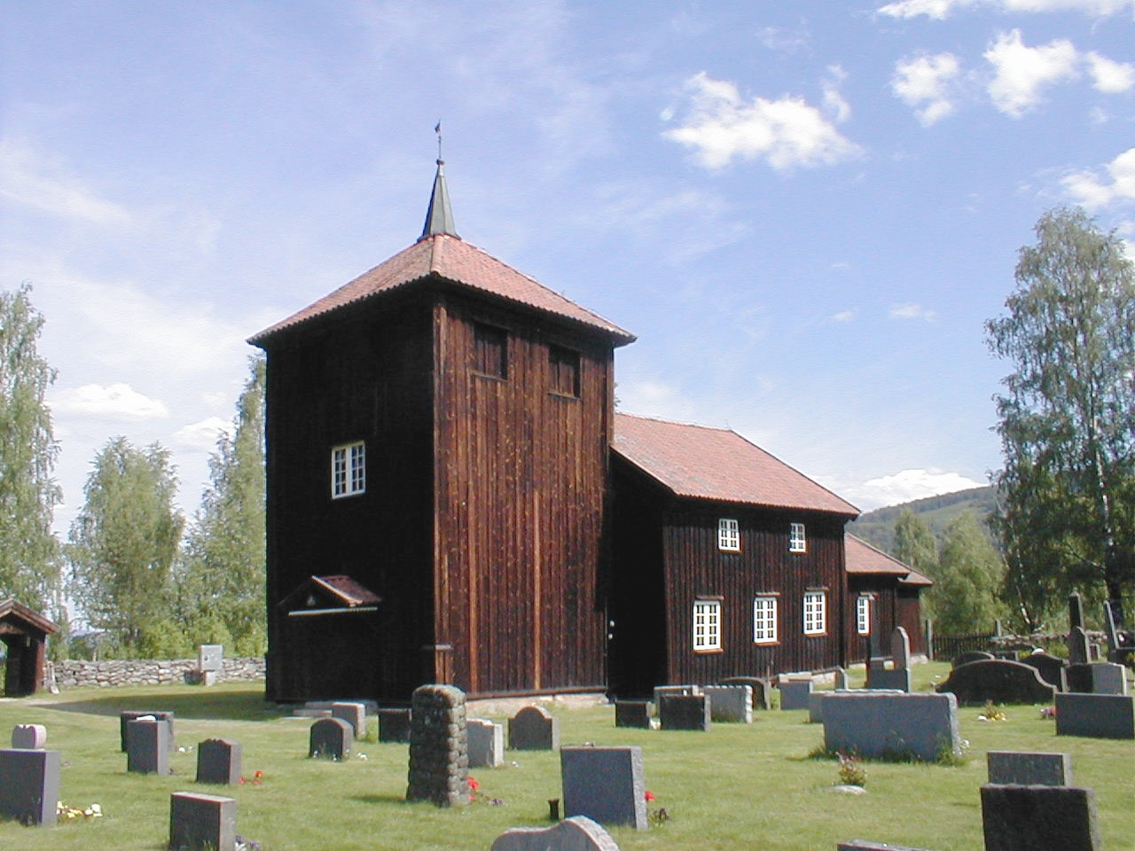 Viker church (Viker kirke), a church built in 1702, in Ringerike, Buskerud, Norway.